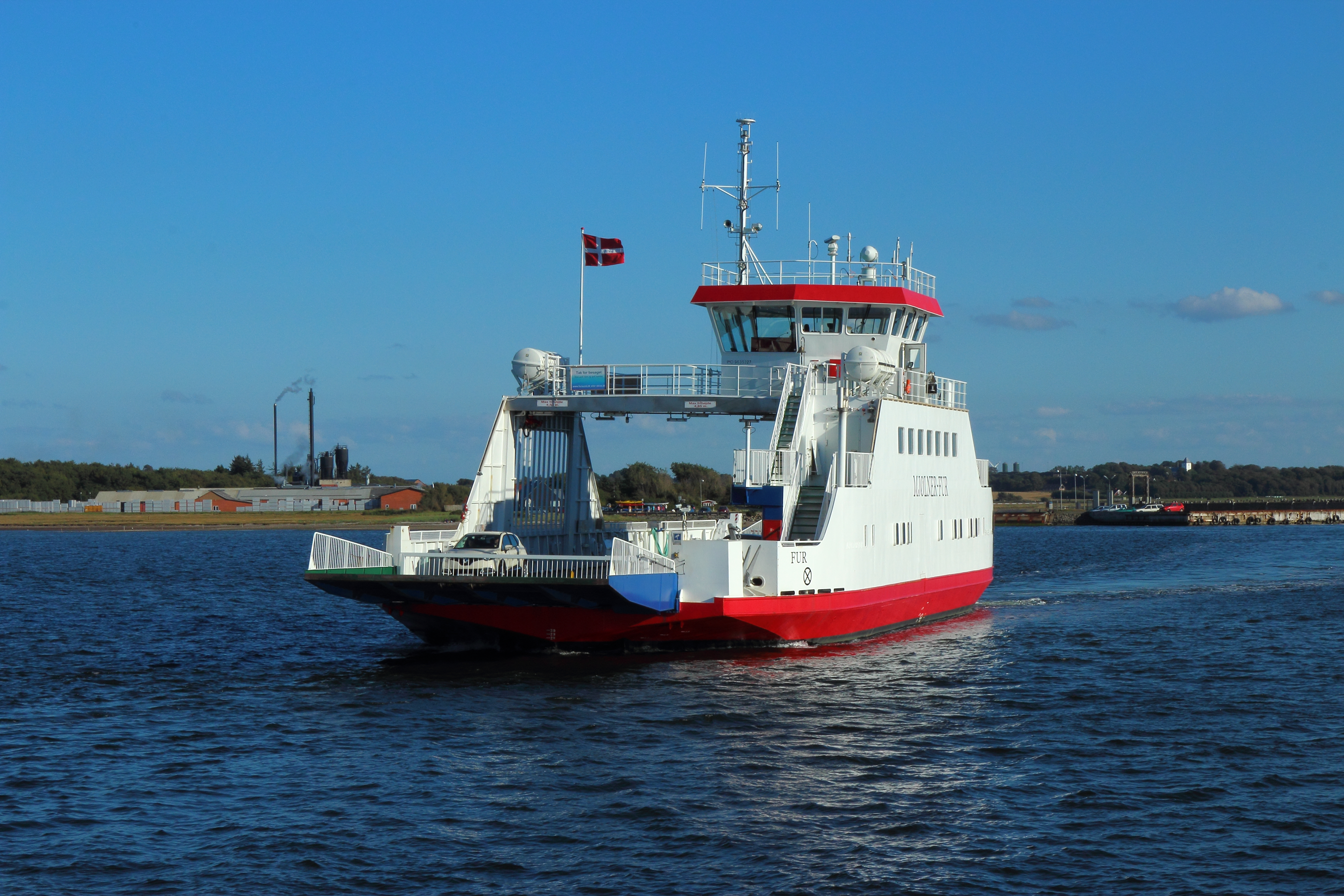 The Ferry Mjølner-Fur (IMO 9635327) commuting between Brande, Salling and the island Fur in Denmark